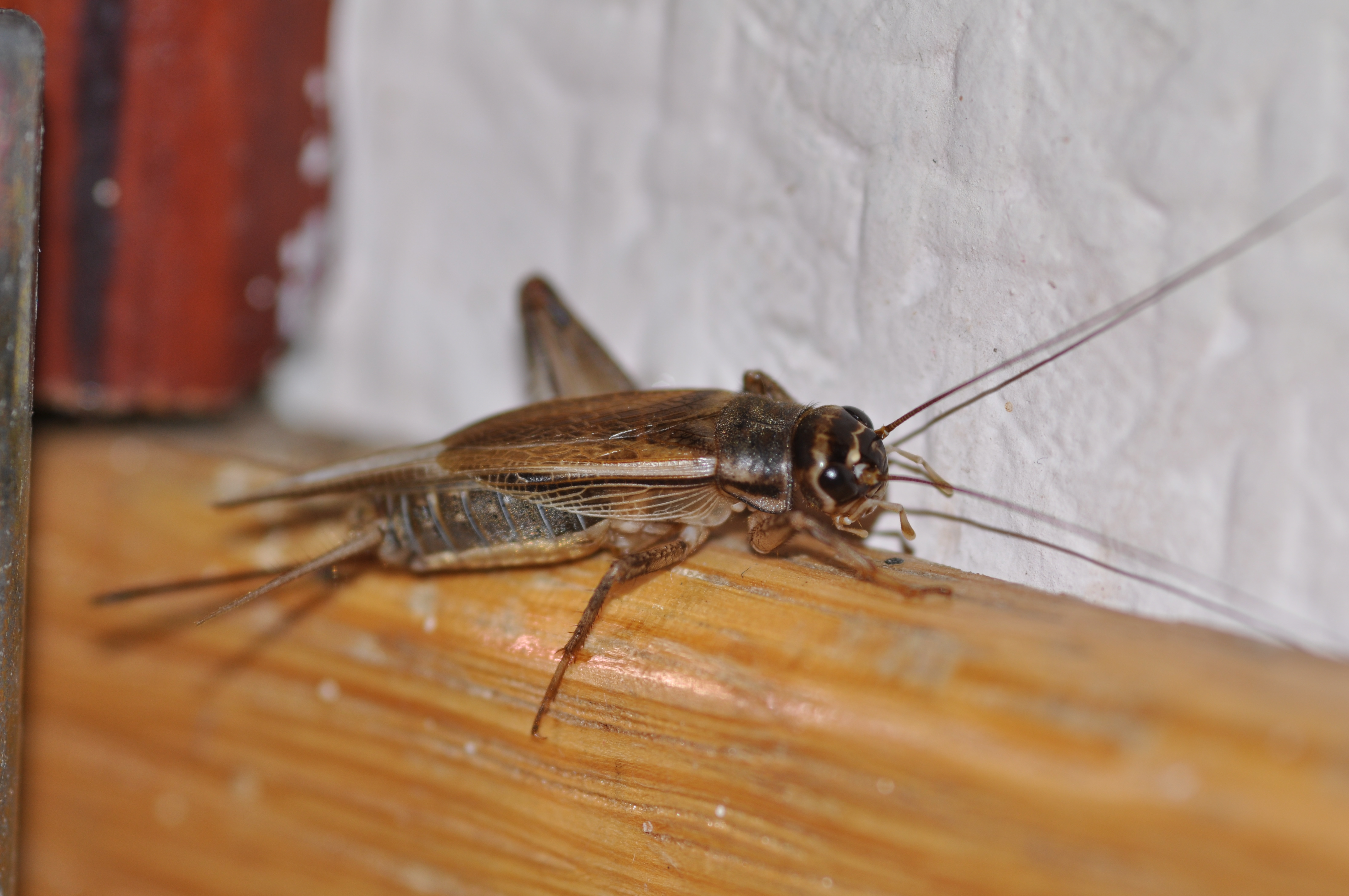 House cricket Acheta domesticus in Kirchwerder, Hamburg.